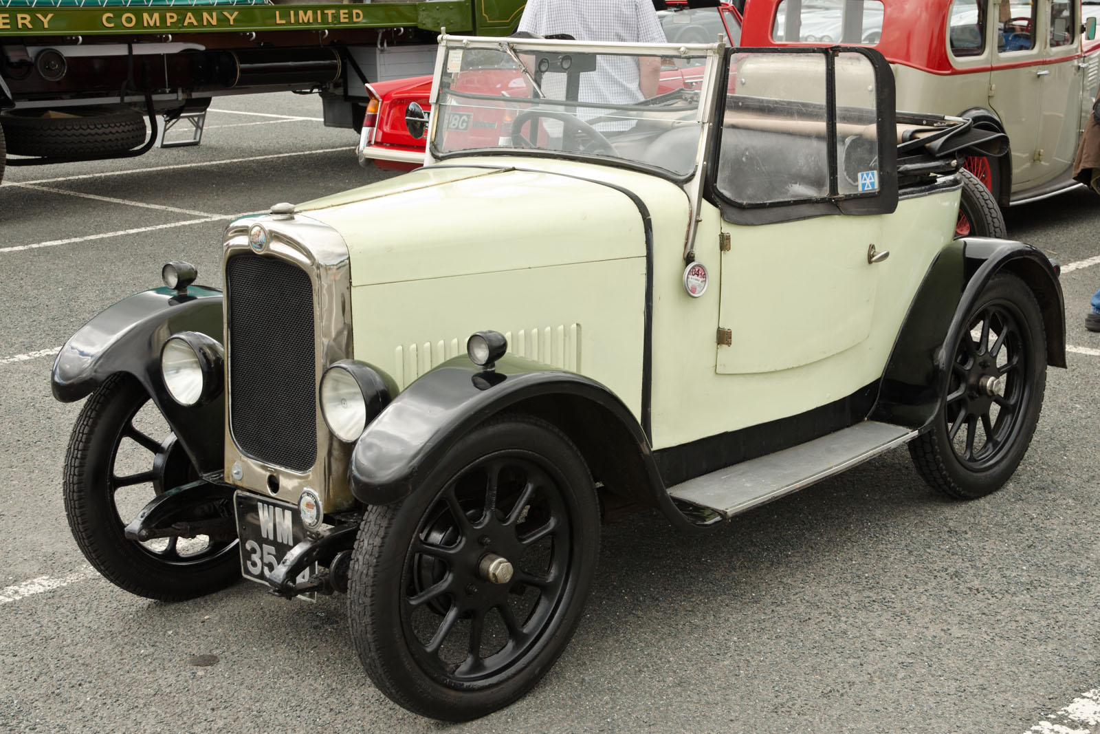 Triumph Super Seven, 1929 (DVLA) first registered 22 June 1929, 832cc North Cheshire Classic Car Club at Ellsmere Port 11/08/2013